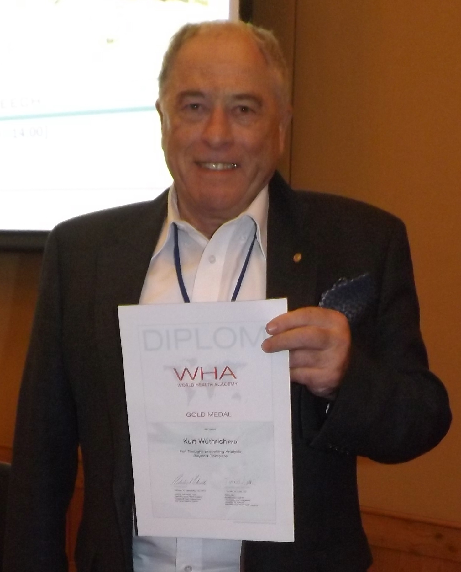 Kurt Wüthrich receives World Health Academy Gold Medal